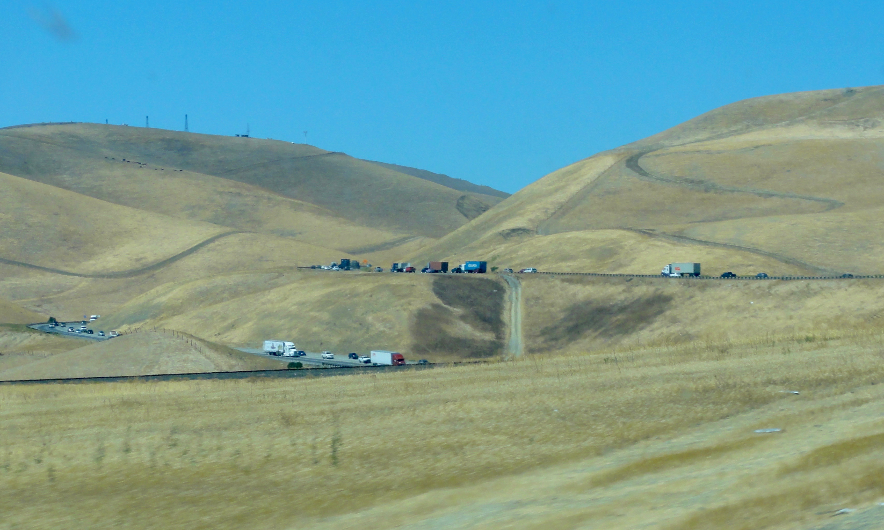 View from westbound I-580 of Altamont Pass.